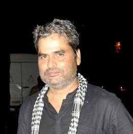 Indian music director Vishal Bhardwaj